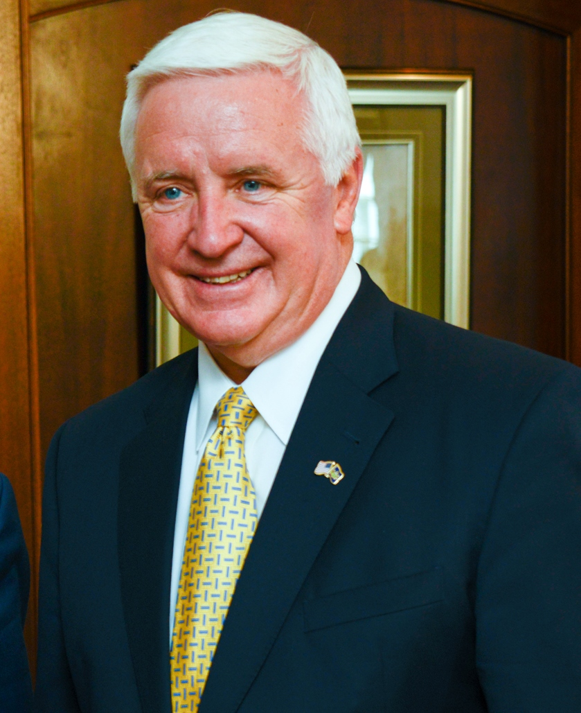 Pennsylvania Governor Tom Corbett; cropped photo